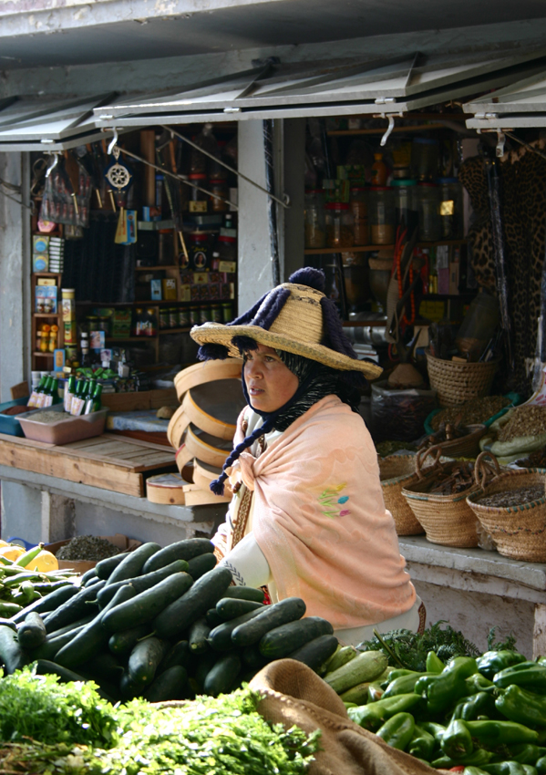 Berber woman at the market Morocco